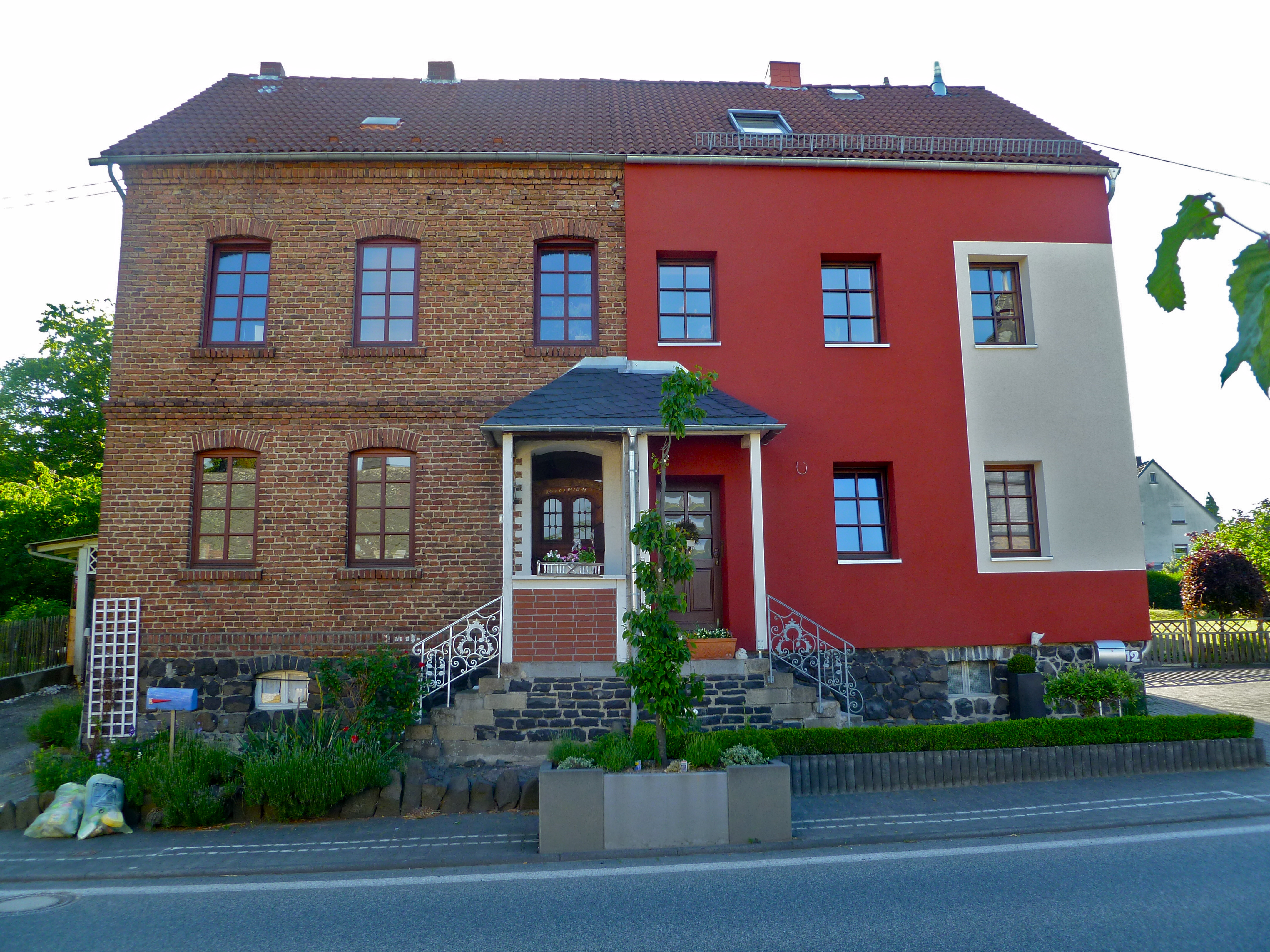 Exterior insulation finishing system (EIFS) partly on historic building in Germany.